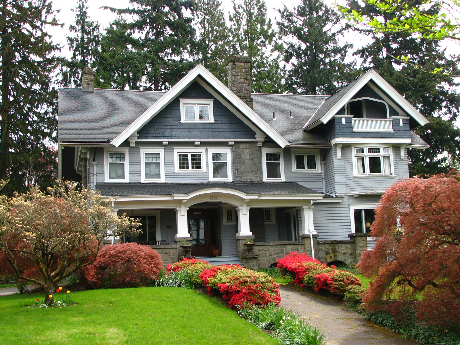 The Samuel Cobb House (built 1911), located at 1314 Southeast 55th Avenue in Portland, Oregon, United States, is listed on the US National Register of Historic Places.